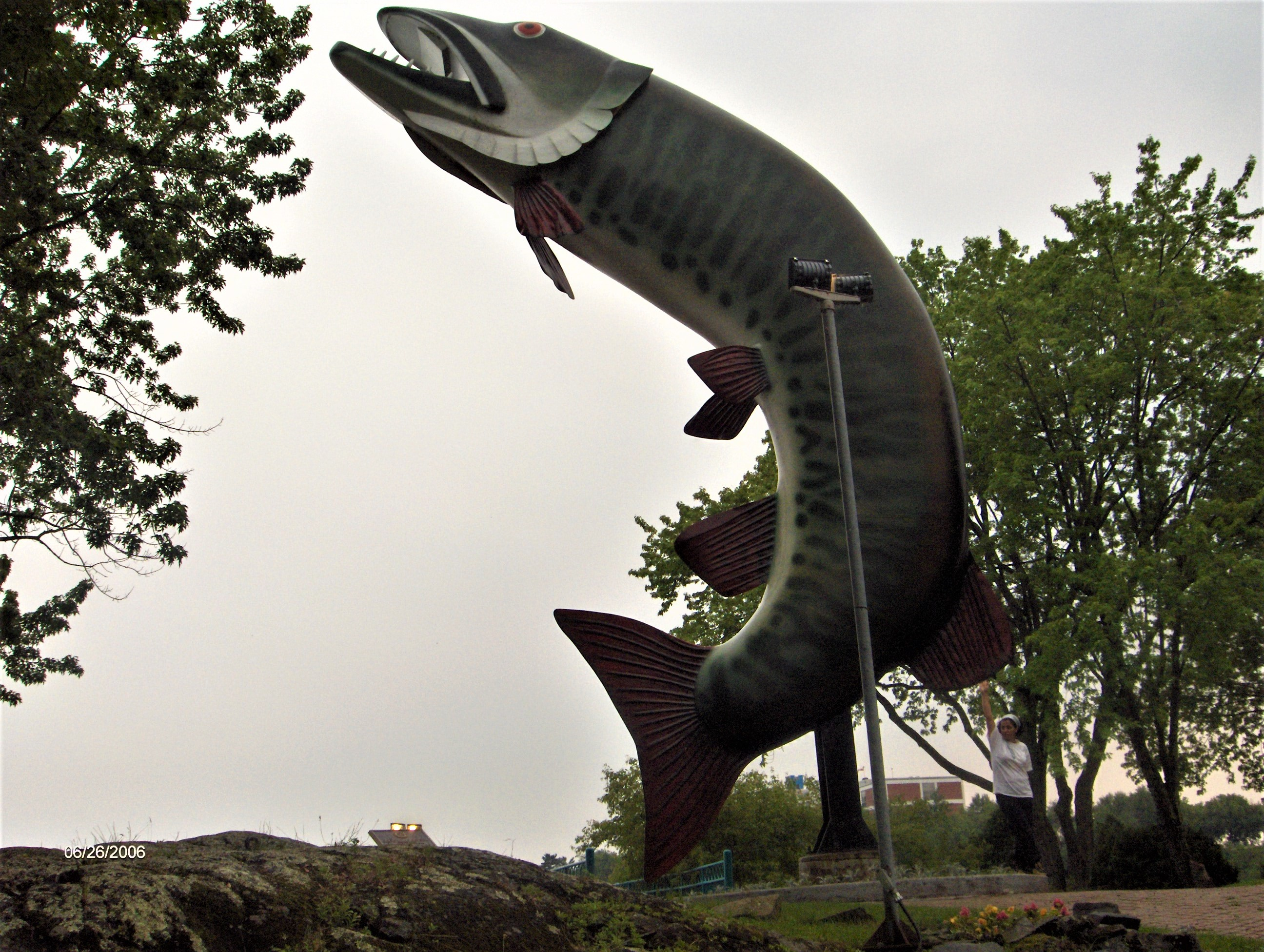 Husky the Muskie, mascot of Kenora, Kenora, Ontario